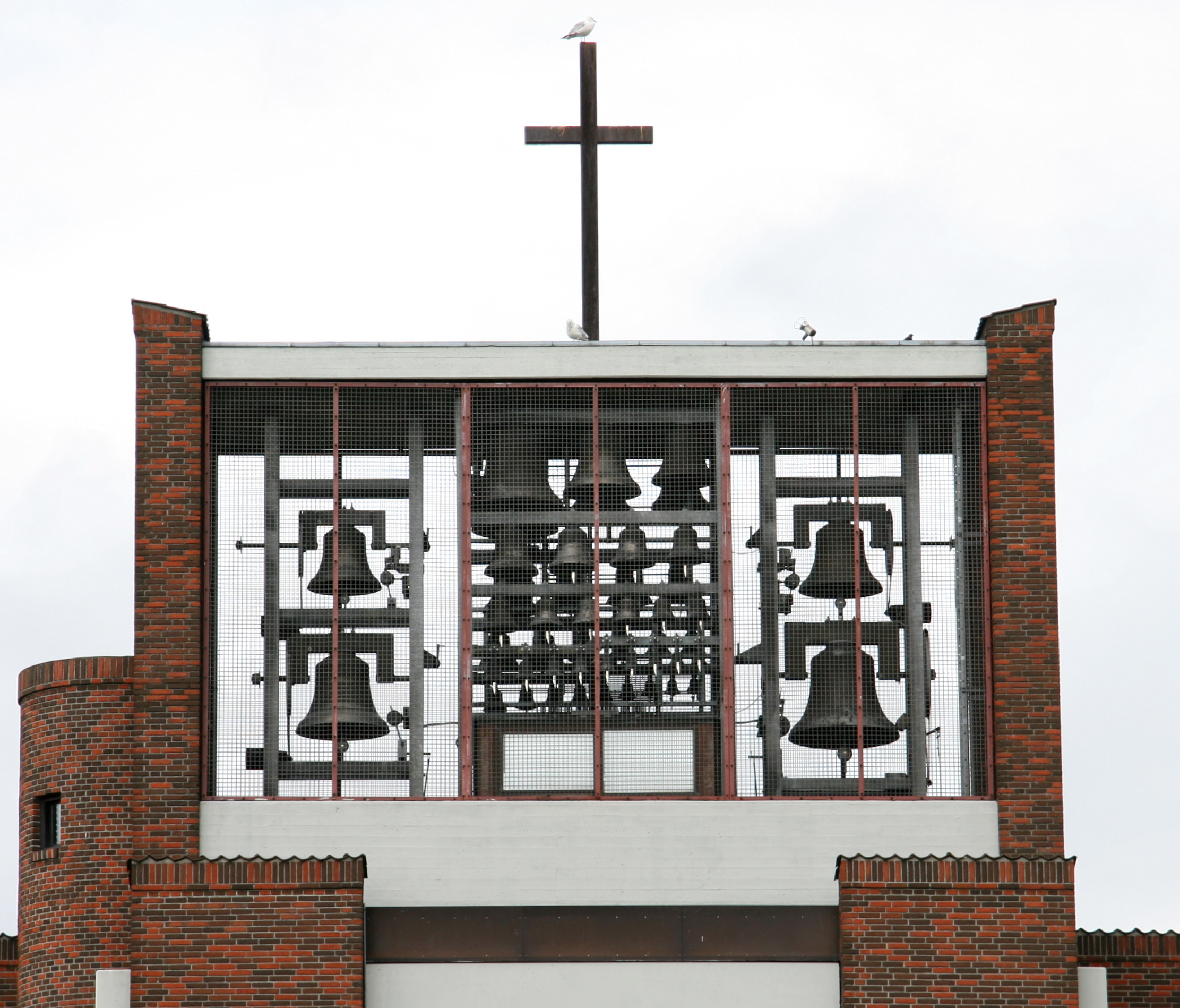 Brøndby Strand Kirke, Copenhagen County, Denmark. Carillon with 48 bells from 10 kg to 1250 kg.